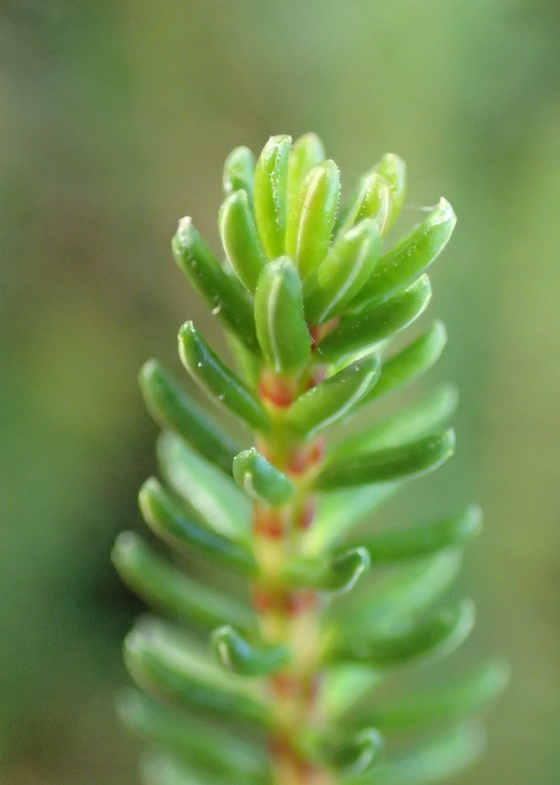 Empetrum nigrum (leaves). Pine forest on Baltic coast in Mrzeżyno, NW Poland